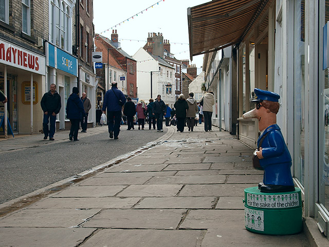 Baxtergate Postman Pat keeps an eye on this shopping street in Whitby